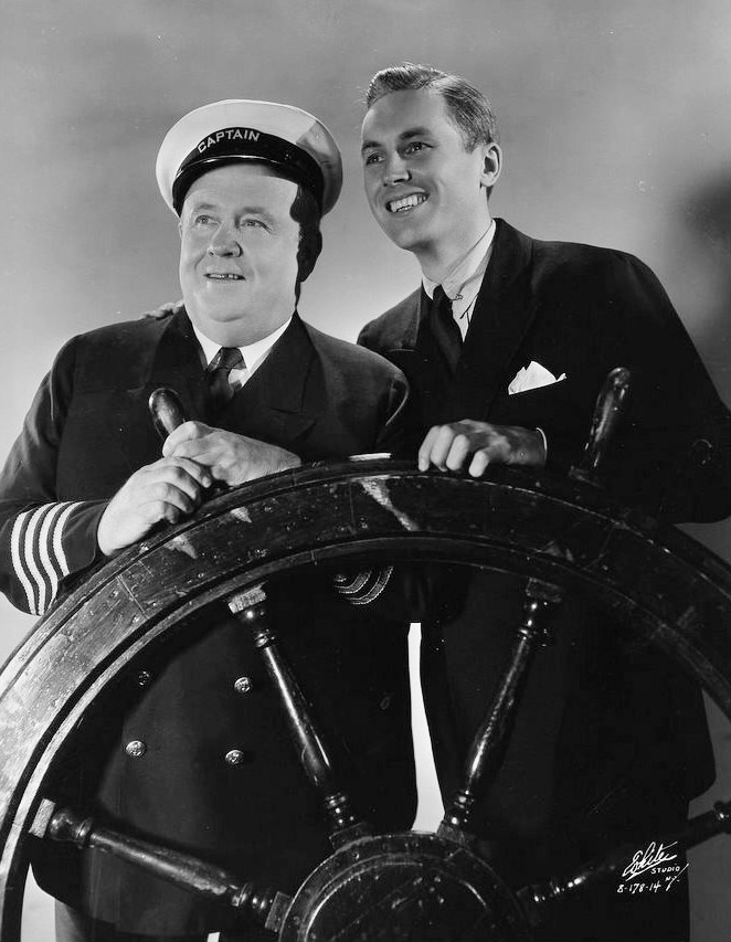 Photo of Frank McIntyre as Captain Henry and Lanny Ross (right) from the radio program Maxwell House Show Boat.